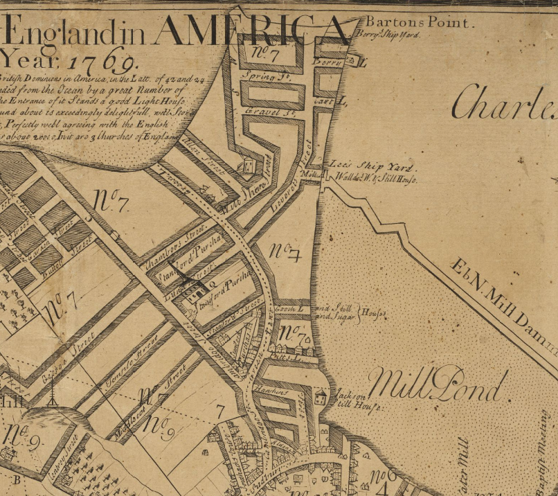 Detail of 1769 map of Boston by William Price, showing West End and vicinity.